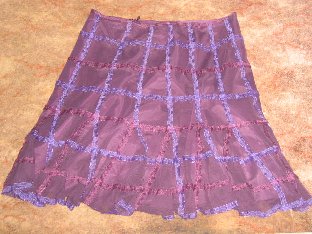 Floaty boho-style dress c2005.